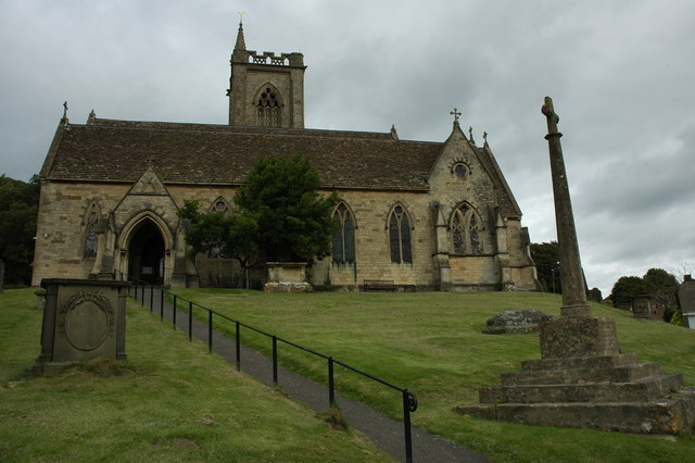 Uley Church Uley church is dedicated to St Giles.